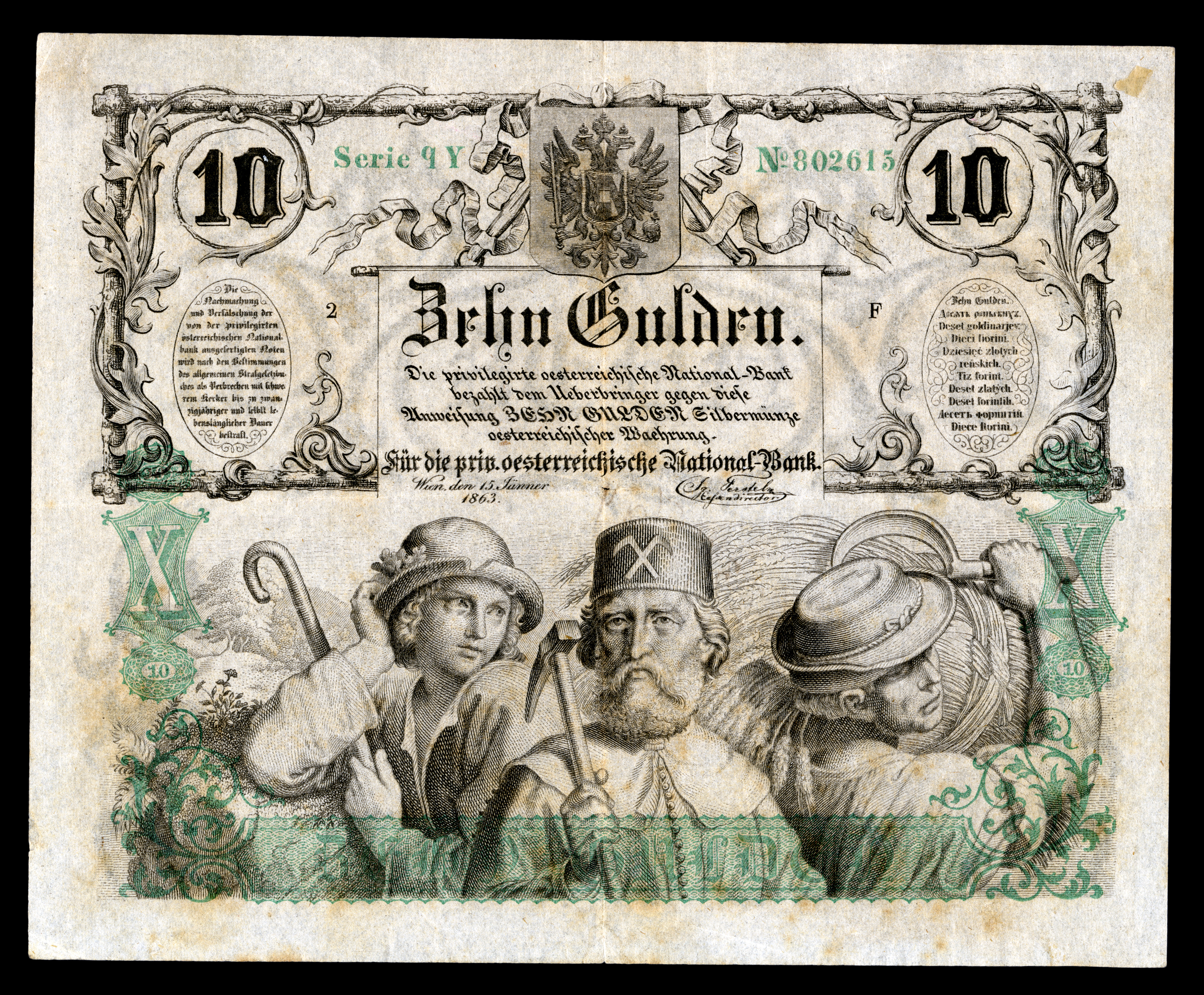 Austrian Empire, 10 Gulden (1863). Designed by Joseph von Führich.